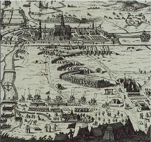 Detail of a situation sketch of the siege of Haarlem in 1572-3. The sketch is taken from the perspective of the Spanish camp at Huis ter Kleef. It is a bird's eye view of Haarlem as seen from the North. On the left is the Spaarne river and on the right of the road to Haarlem is the Dolhuys complex, where Willem Janszoon Verwer was regent and wrote his diary. Clearly visible to the left of the Dolhuys is the gallows.